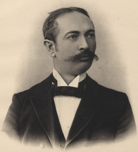 Aleksander Brückner, polish linguist